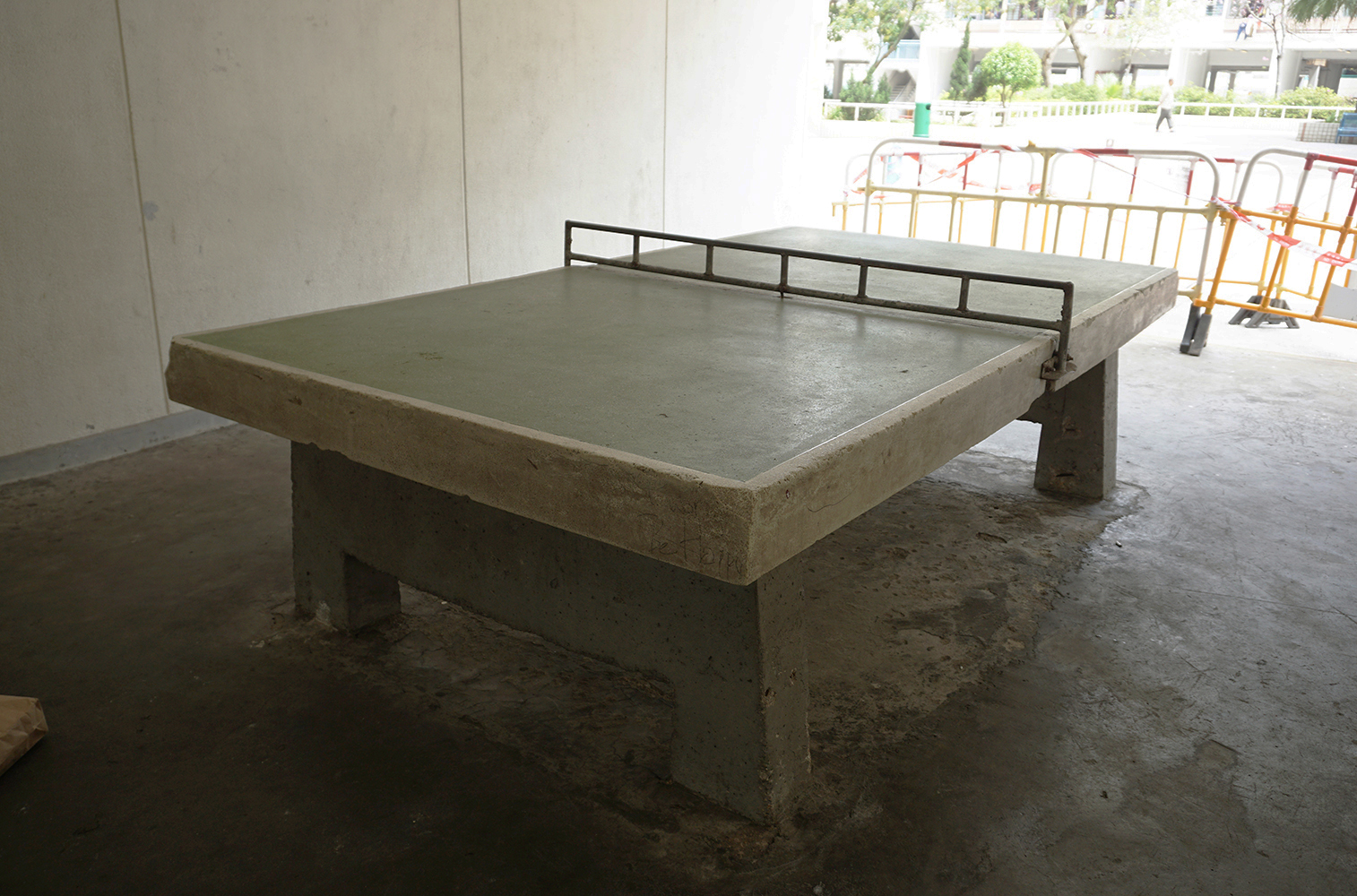 Wo Che Estate in Shatin, Hong Kong.